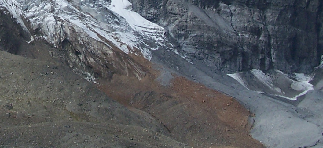 glacier at the Ortler